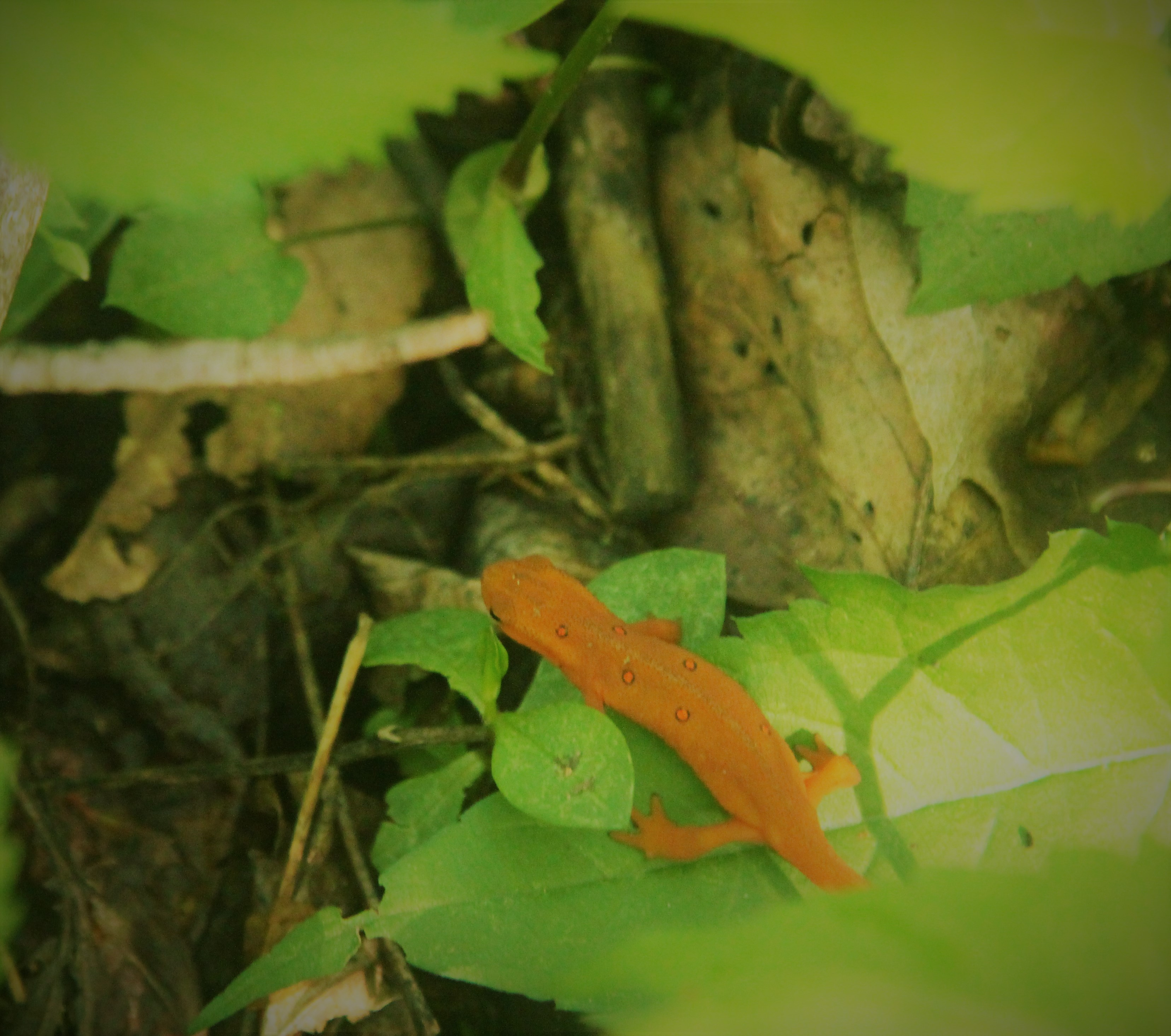 Red Eft, photographed along the Appalachian Trail in the Thunder Ridge Wilderness, Virginia